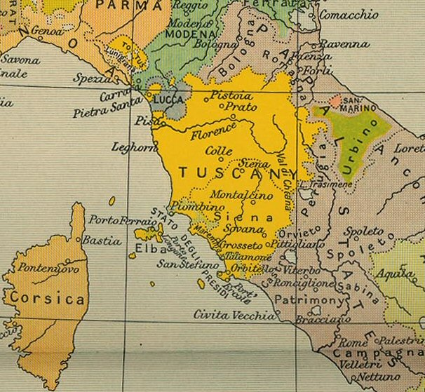 Italy at the end of the 16th century.